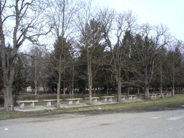 Center of village with market place and park in Knićanin/ Vojvodina/ Serbia. Here stood until 1948 the destroyed German church.